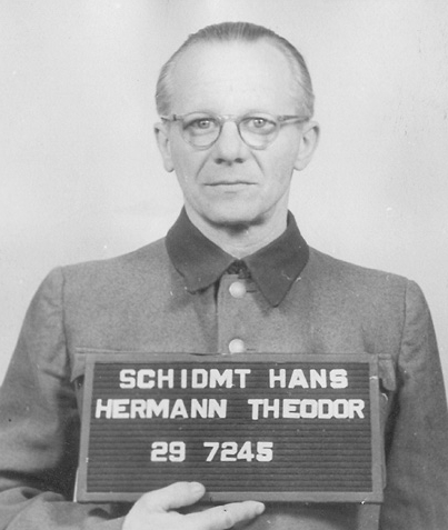 Hans-Theodor Schmidt, SS-Hauptsturmführer, adjutant of the commandant and legal officer in the concentration camp of Buchenwald. In the Buchenwald Camp Trial (part of the Dachau Trials) he was sentenced to death by hanging